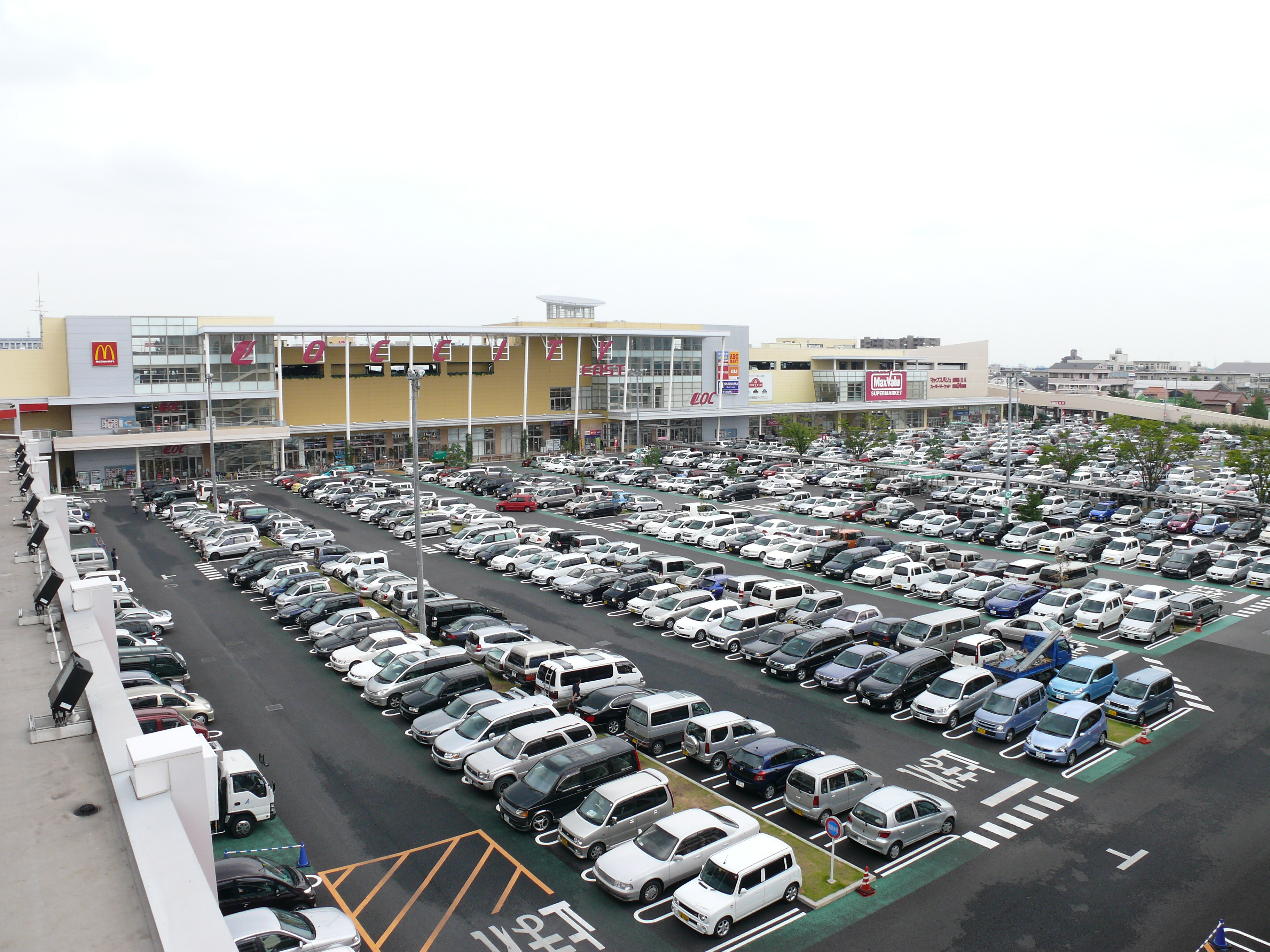 LOC City Ogaki Shopping Center.